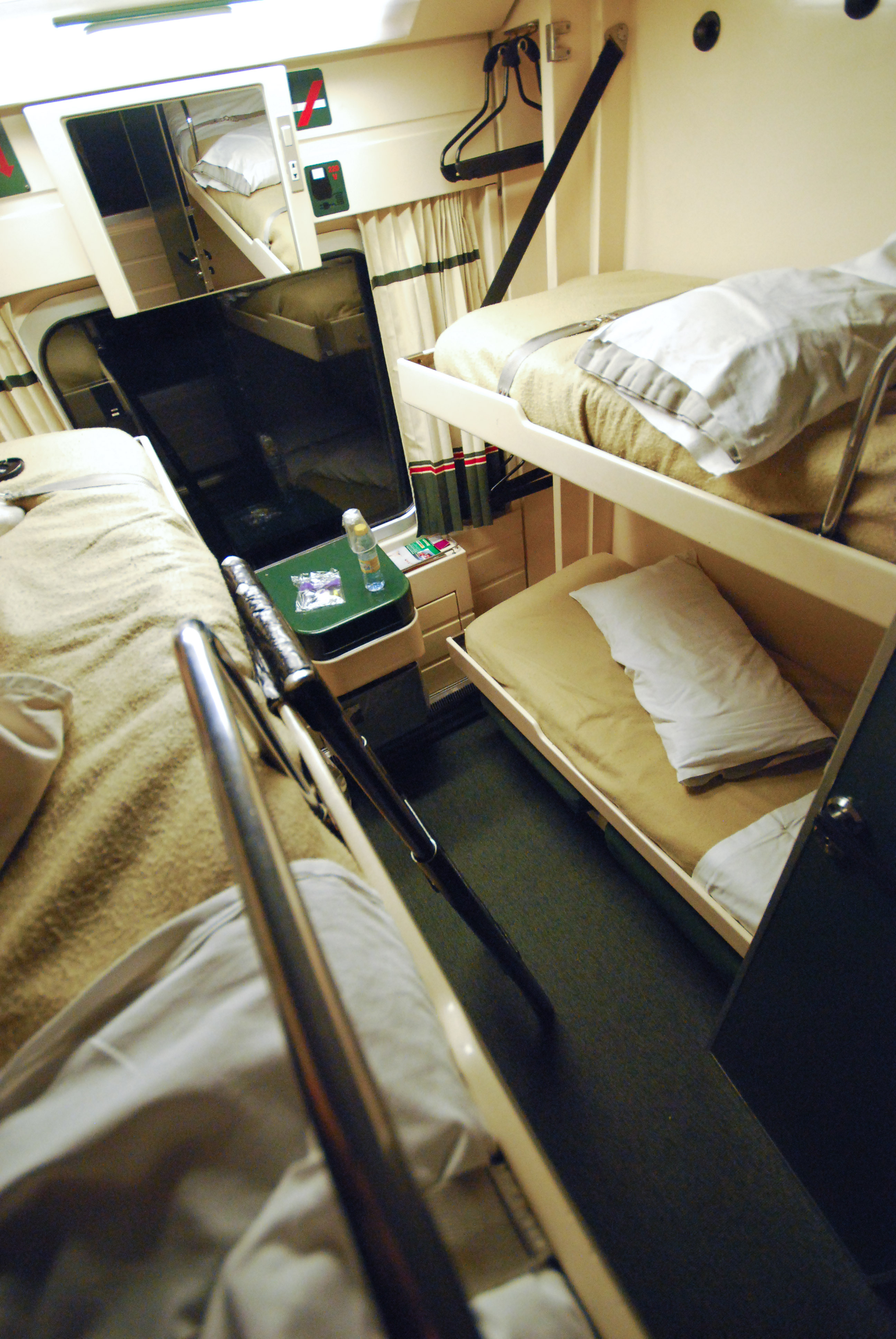 Sleeping bunk on the overnight to Paris (France). It looks as cramped as it was.